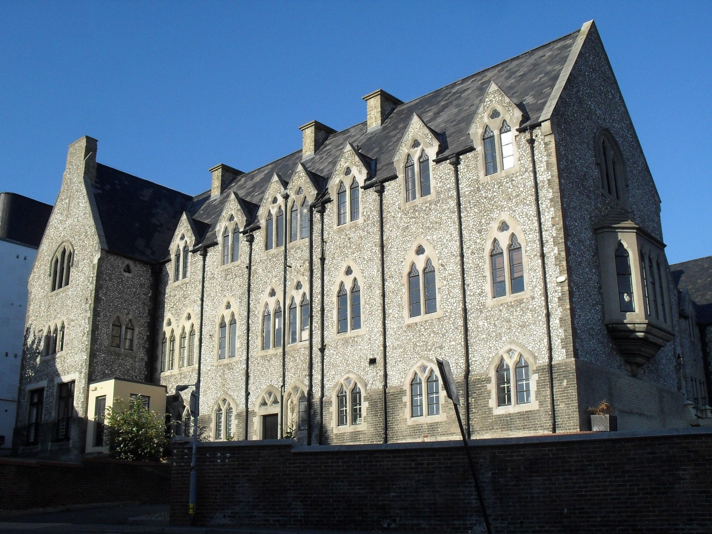 Brighton Forum (formerly Brighton Business Centre), Viaduct Road/Ditchling Road junction, Brighton, City of Brighton and Hove, England. Built in 1854 by William and Edward Habershon as the Diocesan Training College for Female Schoolmistresses; later used by the Royal Engineers as a base and then as their records archive. This view is from the southwest, looking at the west elevation. Listed at Grade II by English Heritage (IoE Code 480569)